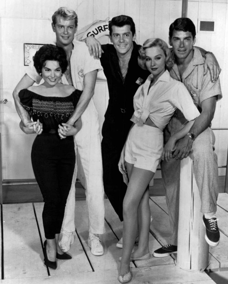 Cast photo from the television program Surfside 6. From left-Margarita Sierra (Cha Cha), Troy Donahue (Sandy), Lee Patterson (David), Diane McBain (Daphne), Van Williams (Ken). The photo has no copyright markings on it as can be seen in the links above.